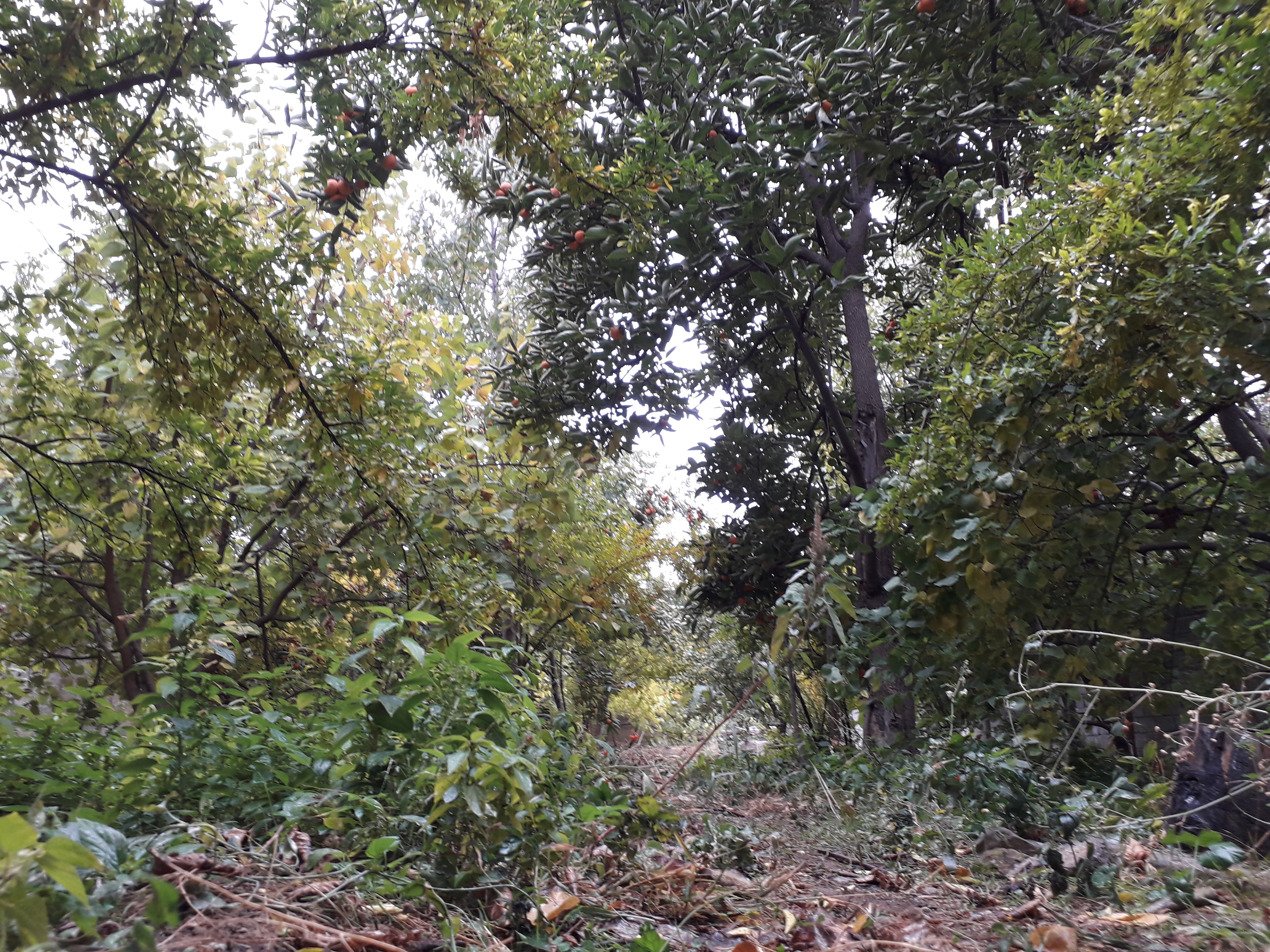 this pictoure is for the nature of city tehran kan